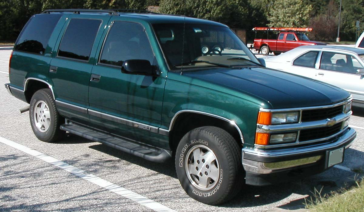 1995-1999 Chevrolet Tahoe photographed in USA.